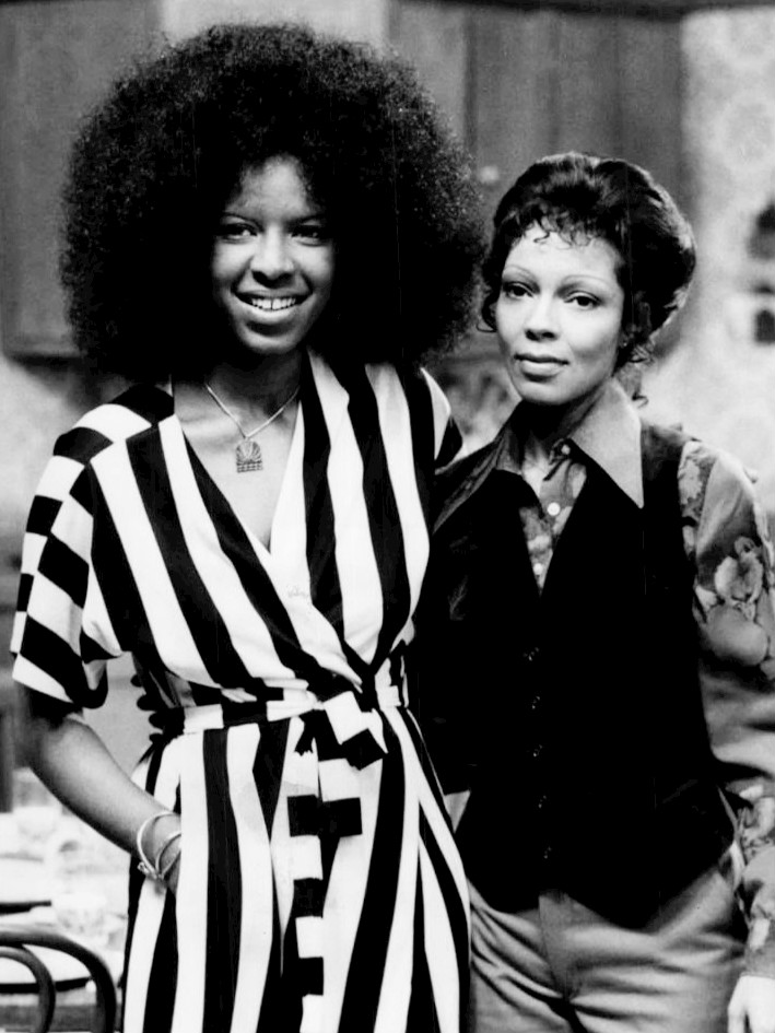 Photo of Natalie and Carole Cole. The sisters were both at NBC, Burbank for tapings. Carole (right) was taping Grady and Natalie was taping segments for The Tonight Show and The Midnight Special.